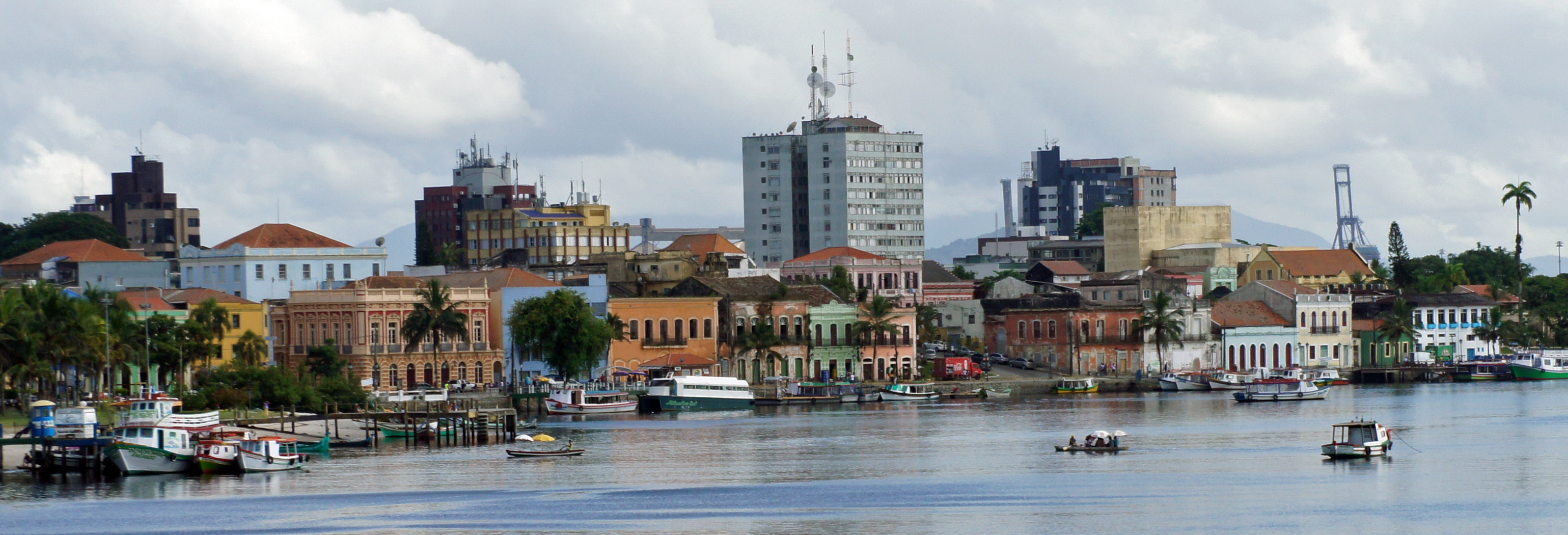 Old downtown Paranaguá waterfront. Parana, Brazil